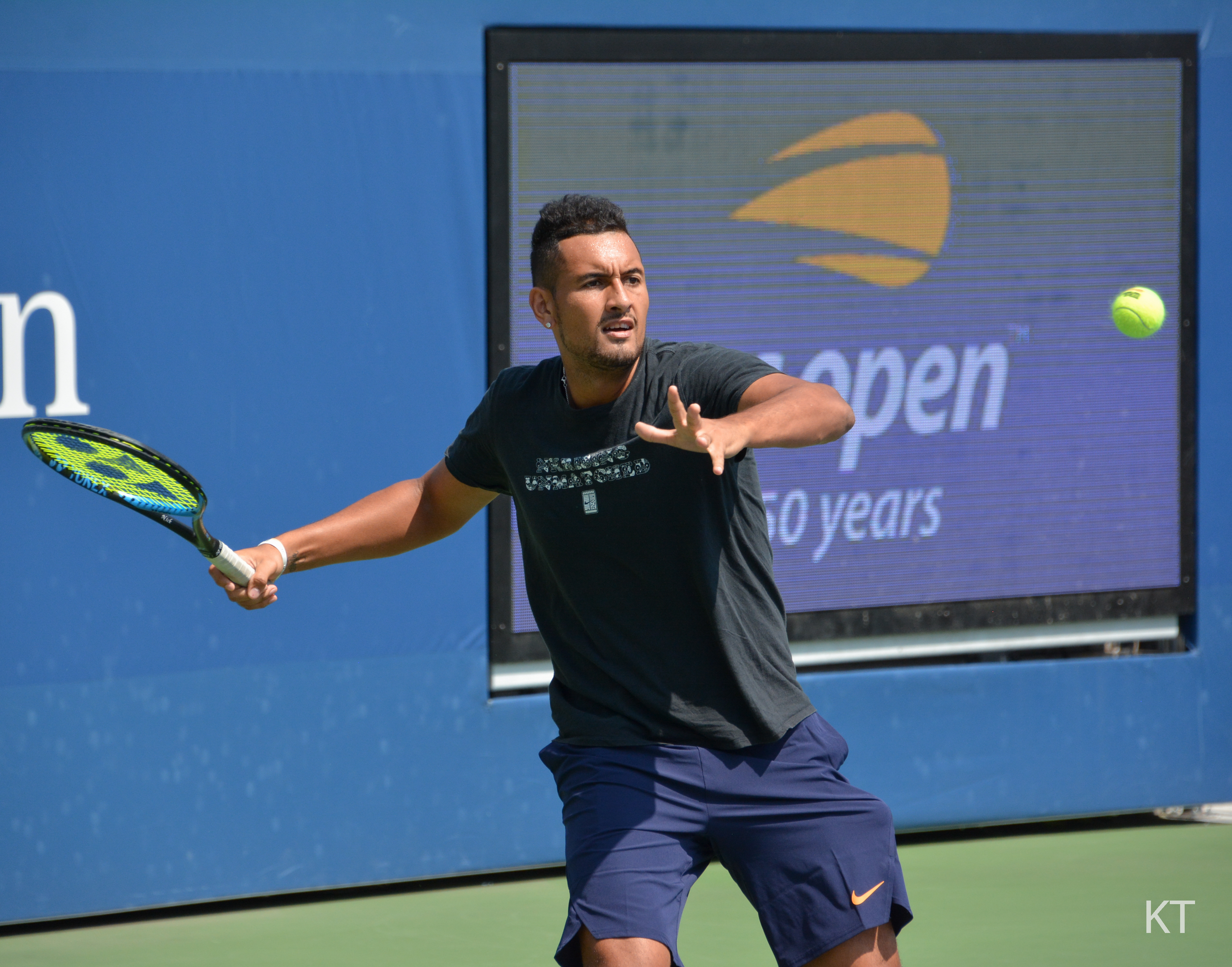 Practice Sunday at the US Open 2018.